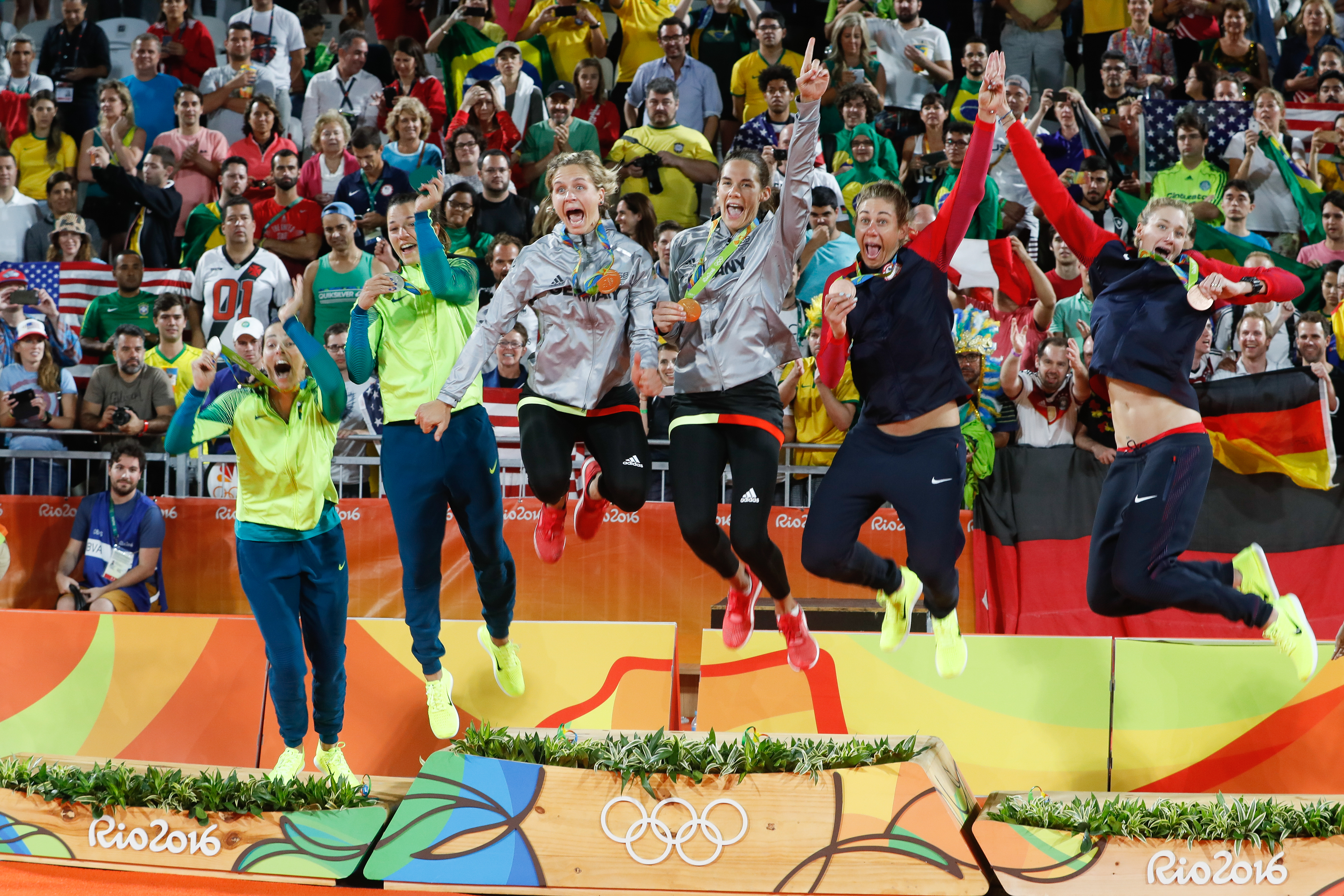 Rio de Janeiro - As alemãs Ludwig e Walkenhorst, levam ouro na final do vôlei de praia, contra as brasileiras, Ágatha e Bárbara, nos Jogos Olímpicos Rio 2016 ( Fernando Frazão/Agência Brasil)